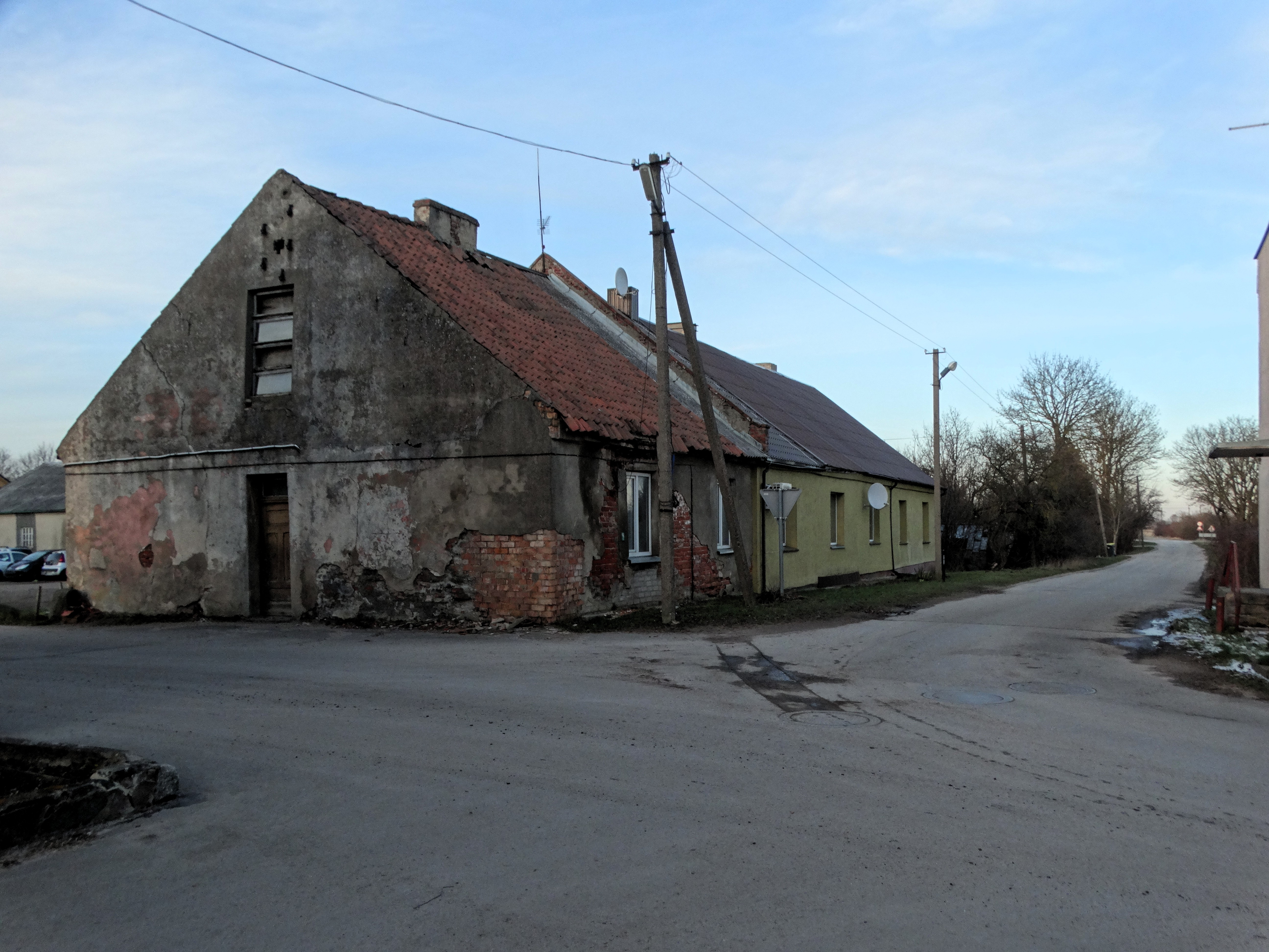 Stragnai II, Klaipėda district, Lithuania